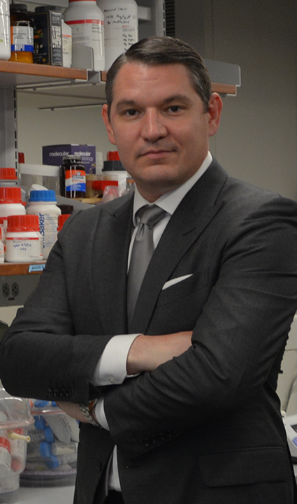 Photograph of Steve R. Little, taken at his Benedum Hall Lab, Friday, September 27, 2019